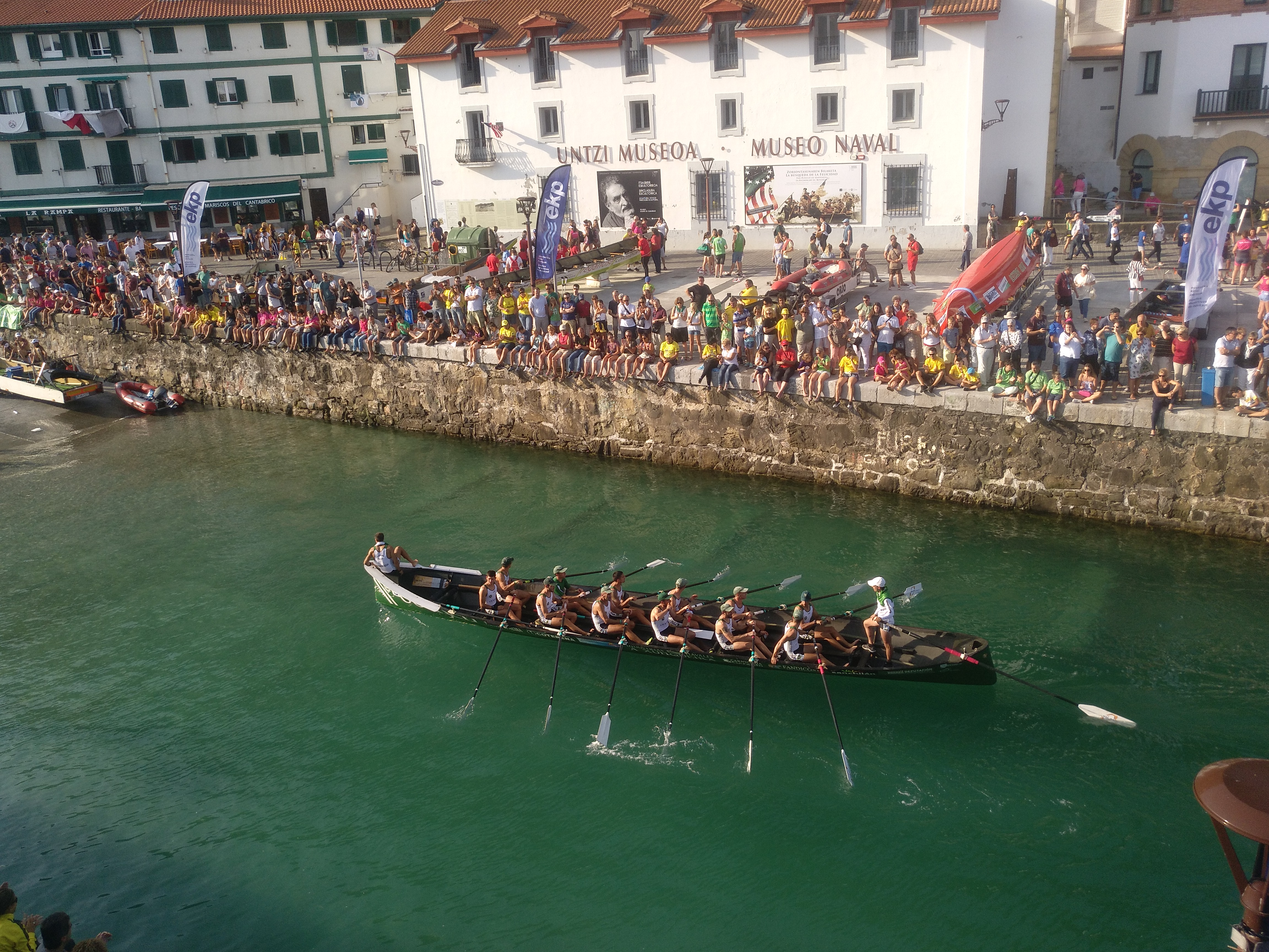 Samertolameu Meira, Flag of La Concha, 2018